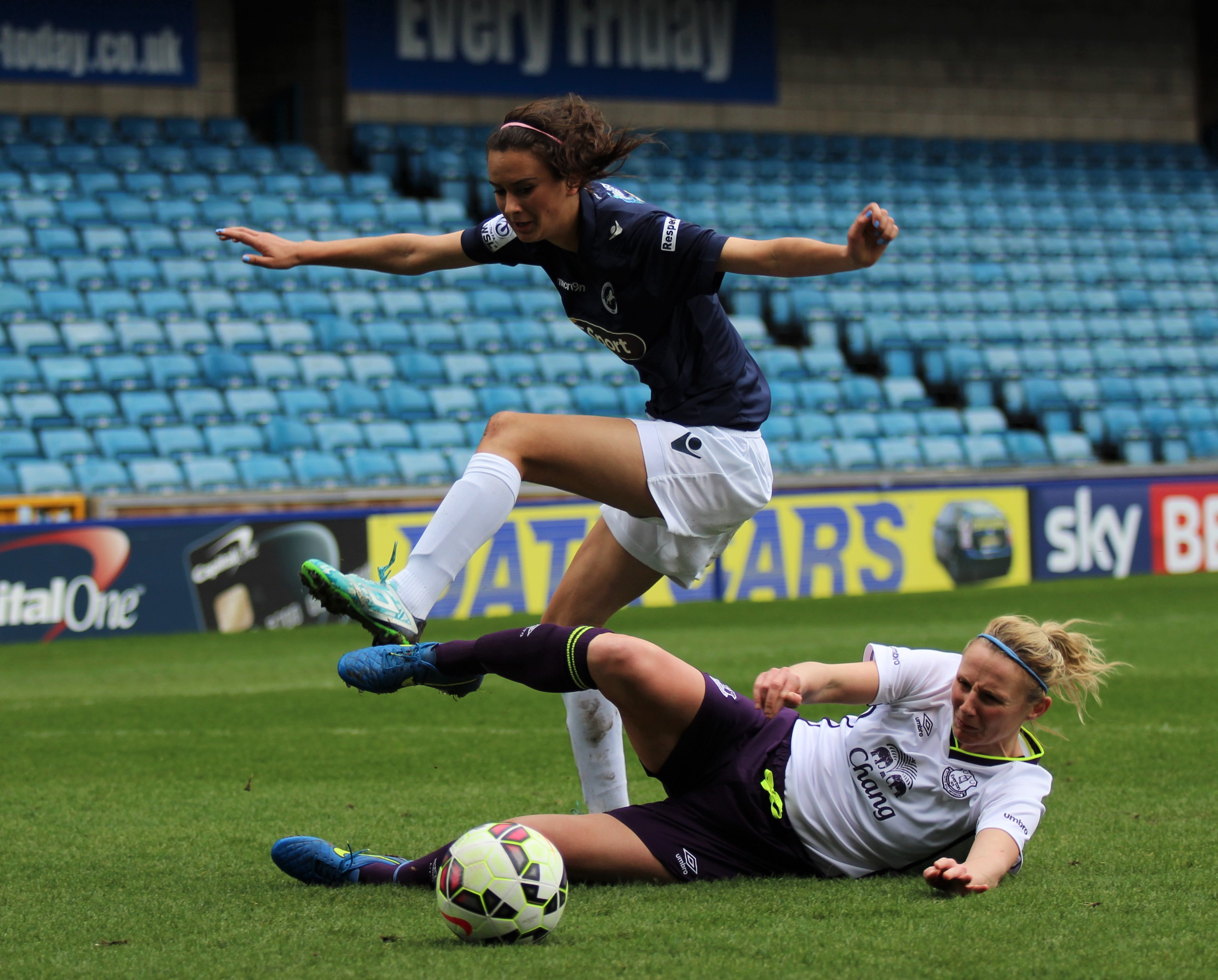 Rosella Ayane of Millwall Lionesses hurdles a challenge from Lindsay Johnson of Everton Ladies